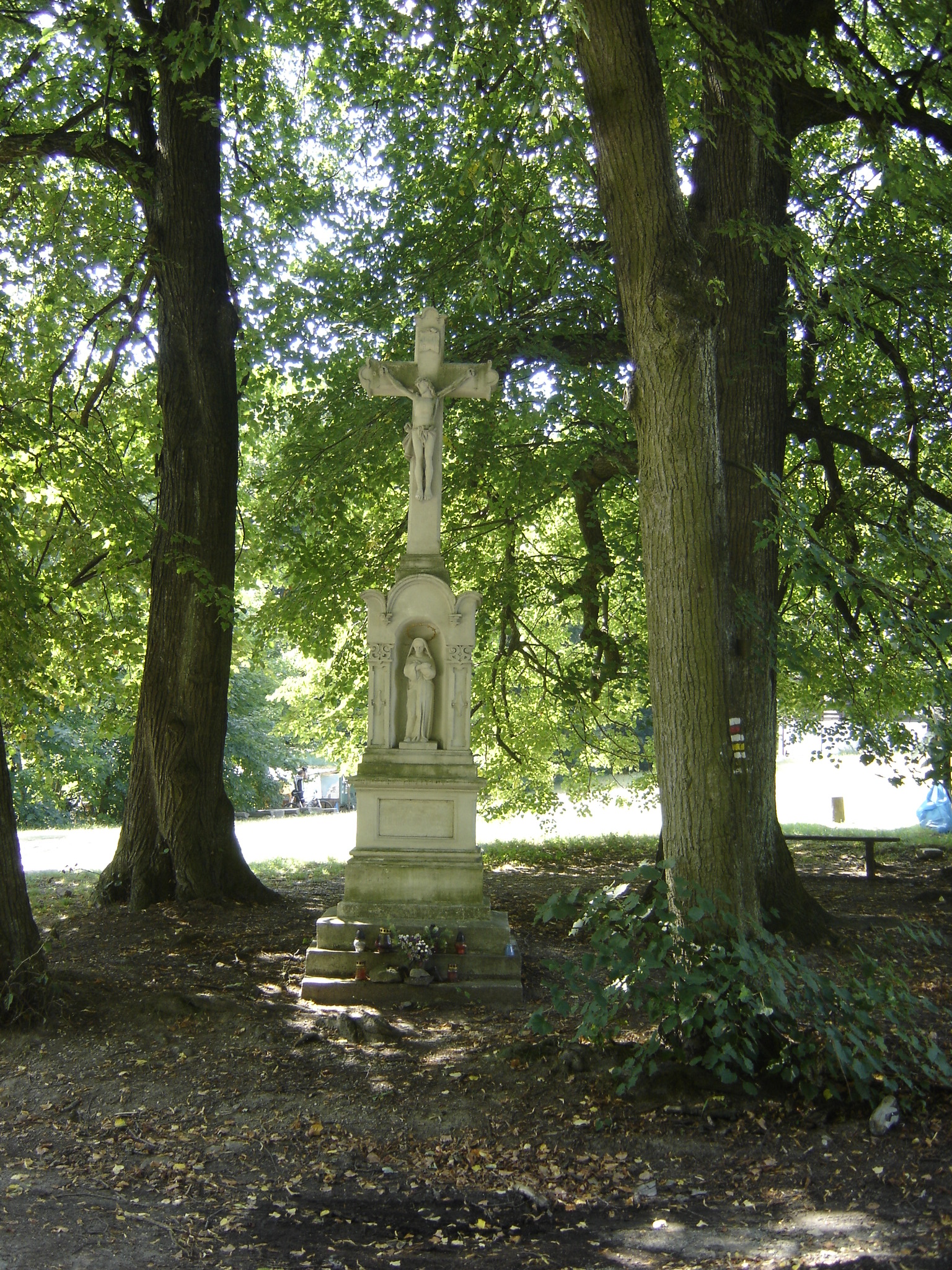 Biely kriz, Little Carpathians